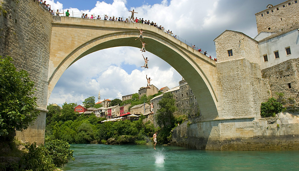 22 year old Trevor (Canada, Tourist) jumps for a 25 Euro fee from "The Old Bridge" (Stari Most) in Mostar, continuous shooting